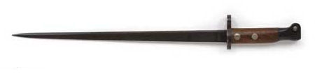 A picture I took at the Dutch Army museum, with the background removed and turned into white.